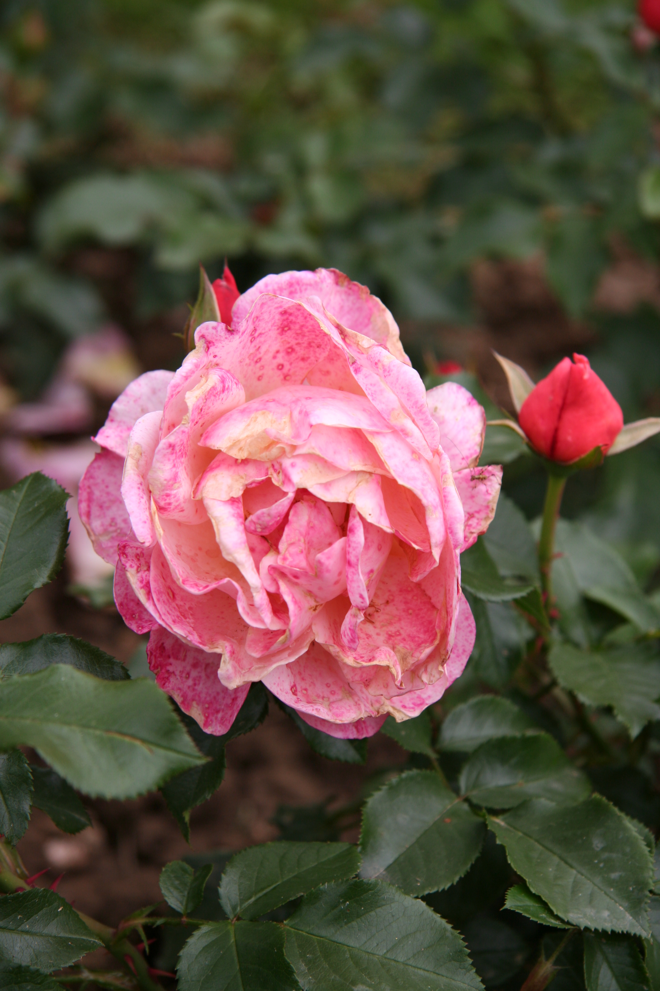 Marie Curie rose - Bagatelle Rose Garden (Paris, France).